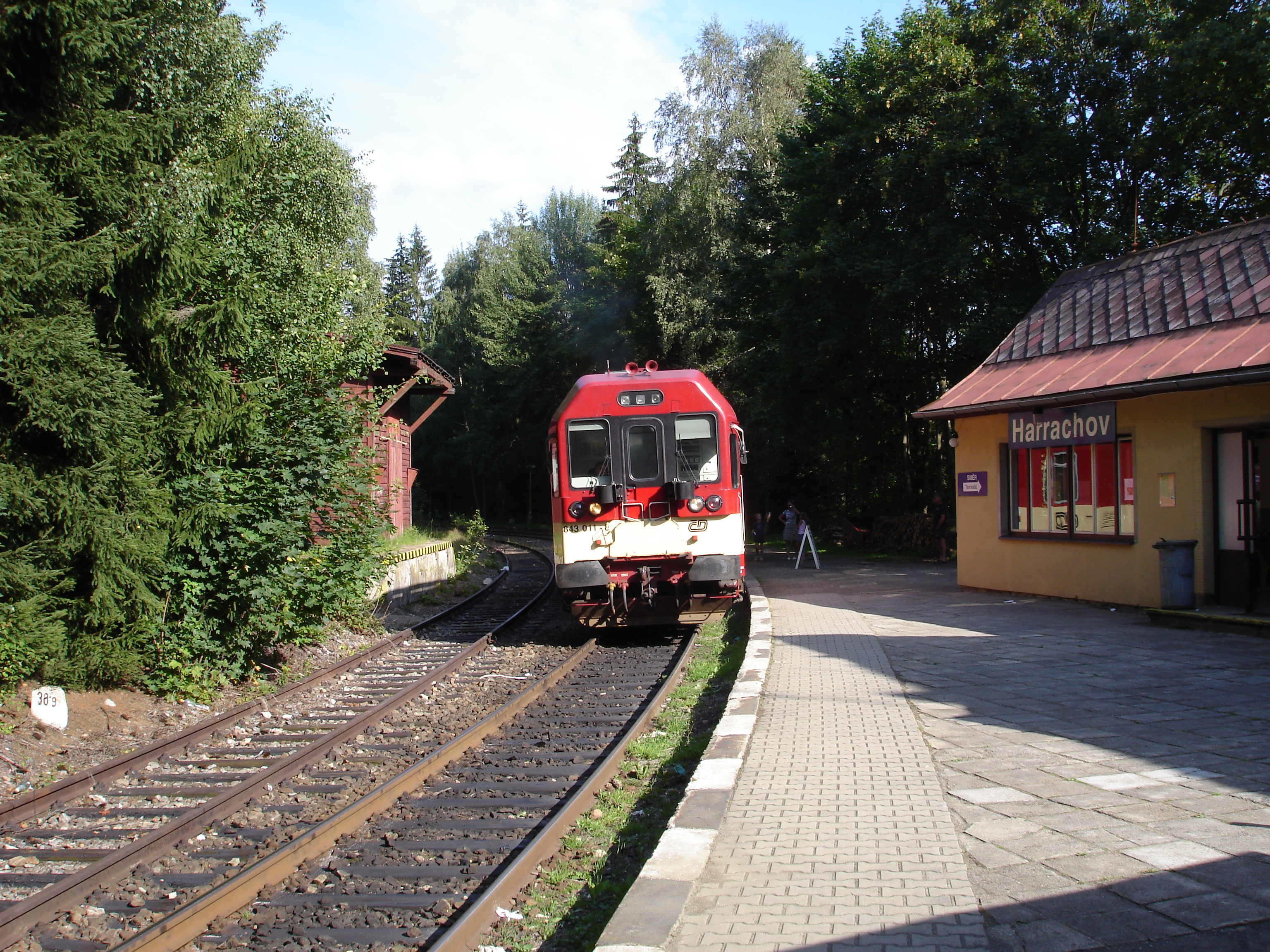 Railway line Jelenia Gora-Korenov: station Harrachov